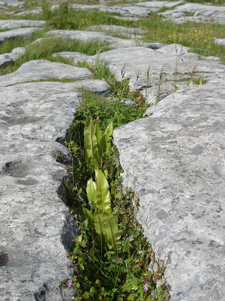 Burren, limestone rocks, plants (Asplenium scolopendrium and other species)